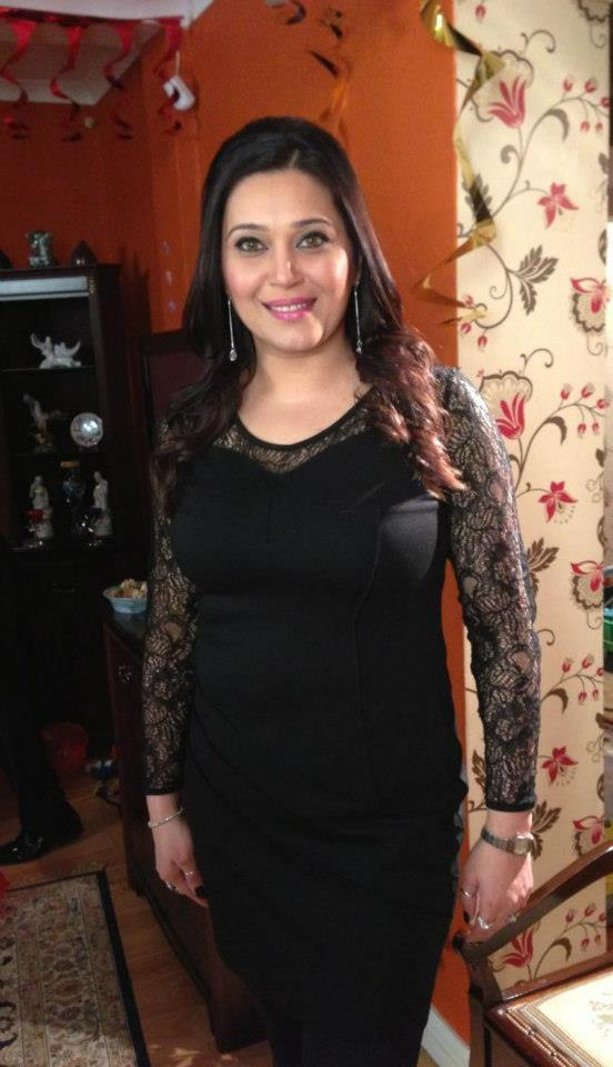 Niki walia